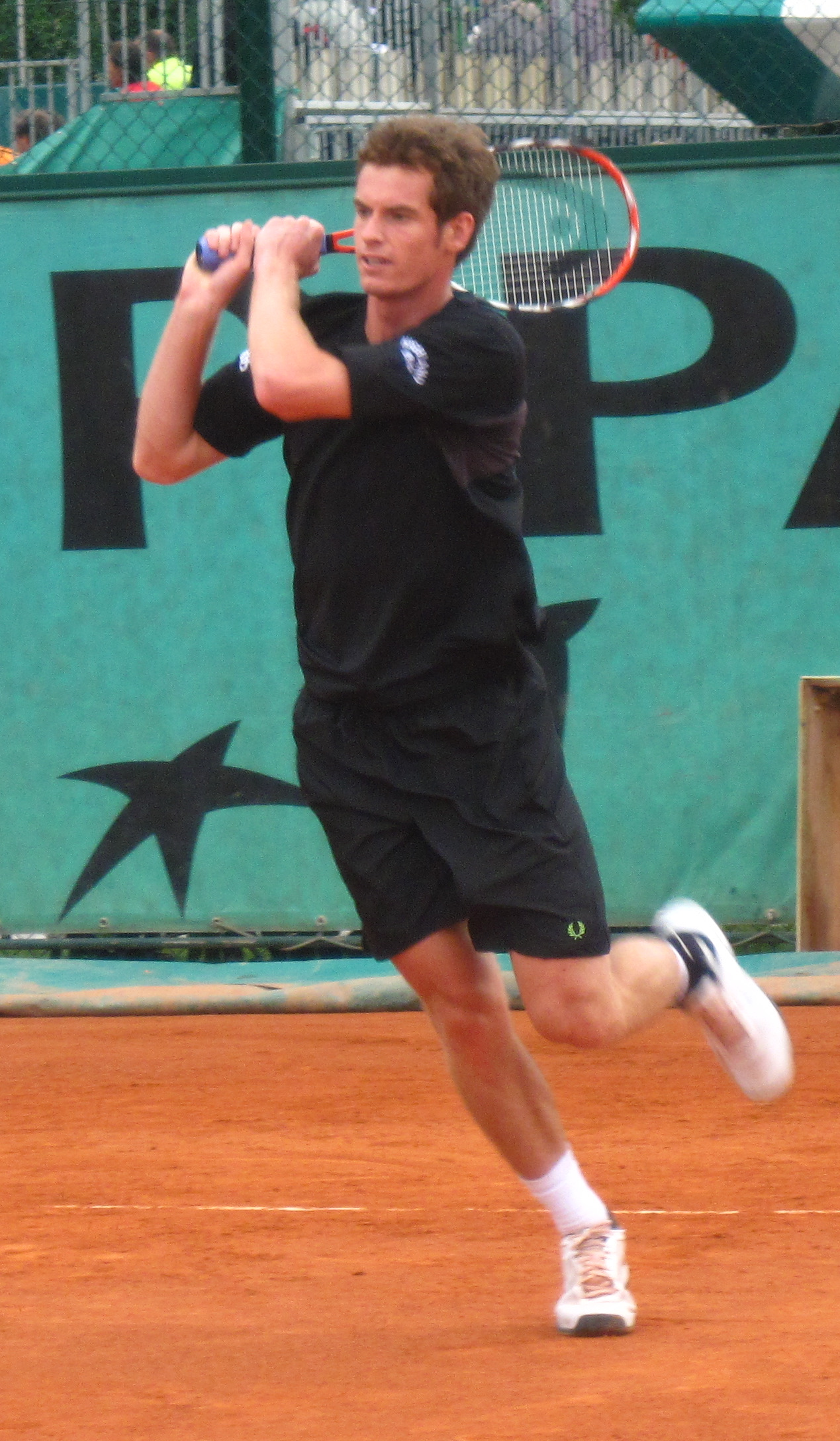 Andy Murray at 2009 Roland Garros, Paris, France